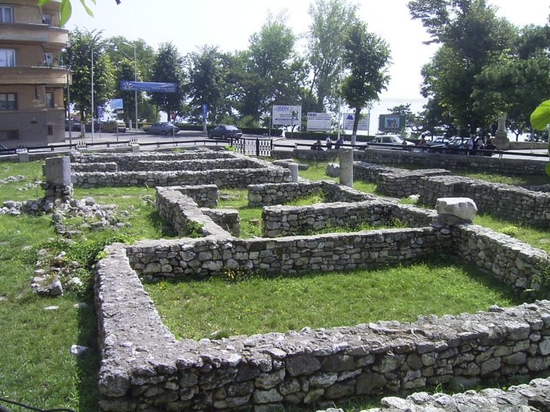 Ruins of the ancient city of Tomis (now Constanţa), Romania 07